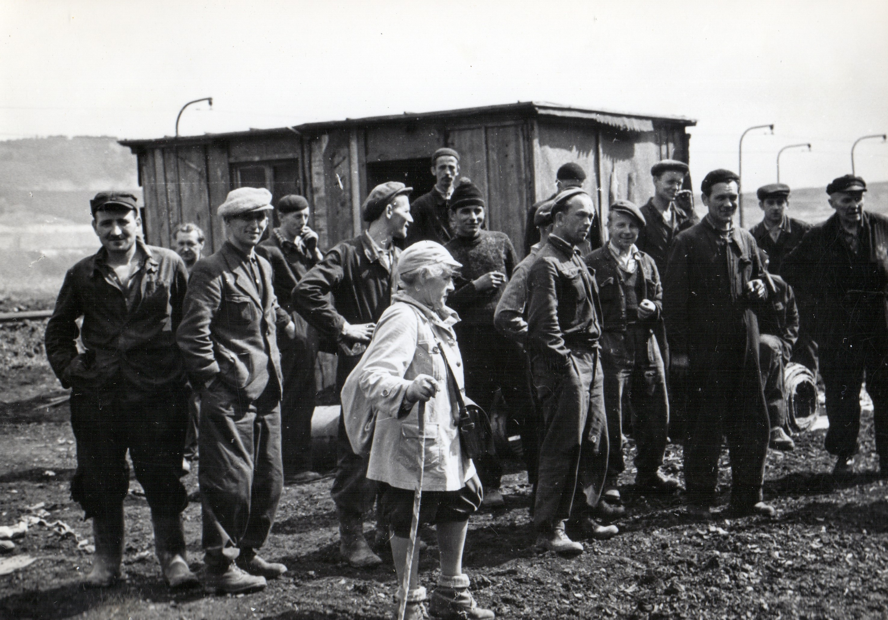 Hanna Czeczottowa with miners in a coal mine in Turoszów 1965.